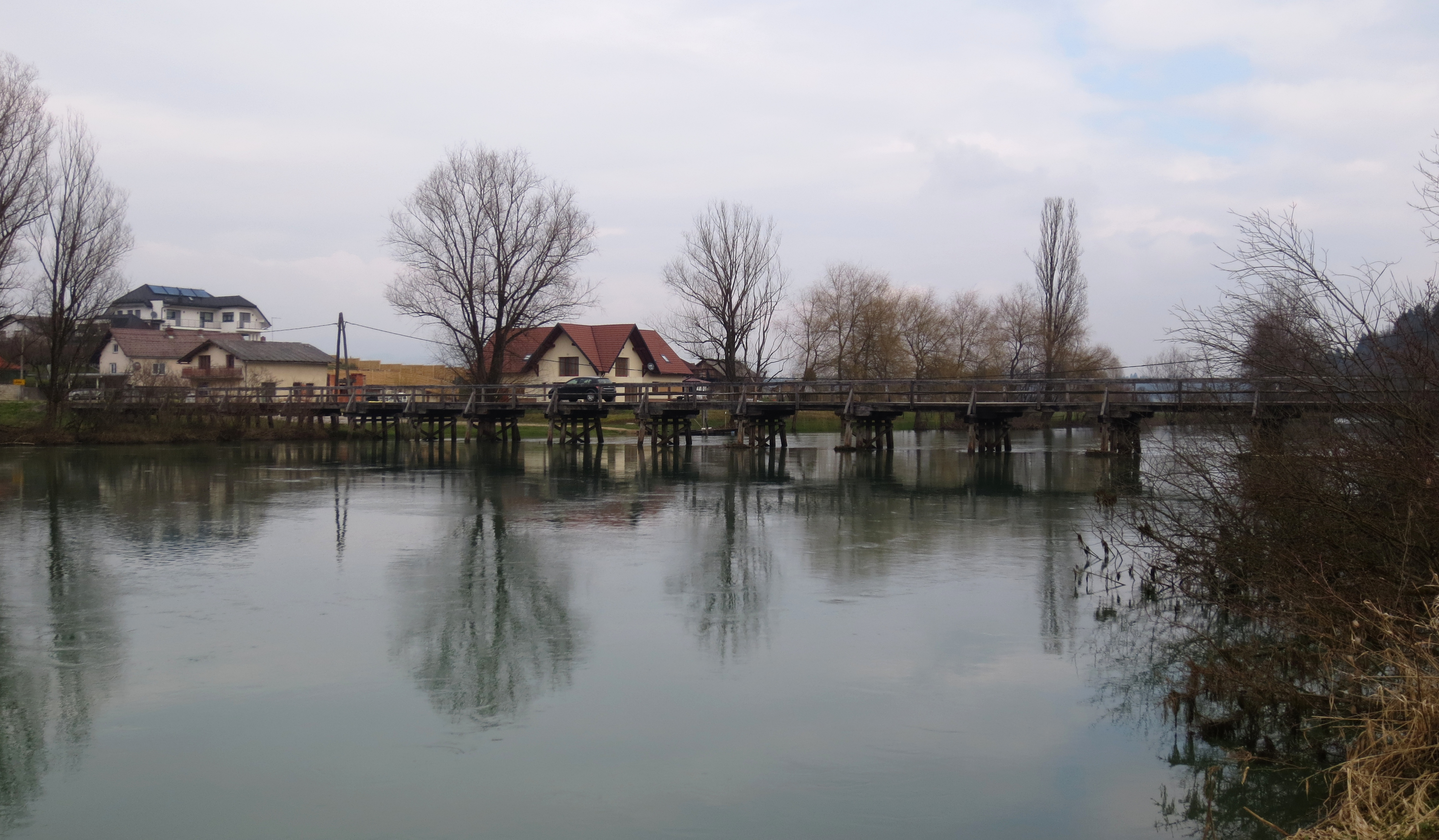 Straža, wooden bridge Loke, cultural heritage